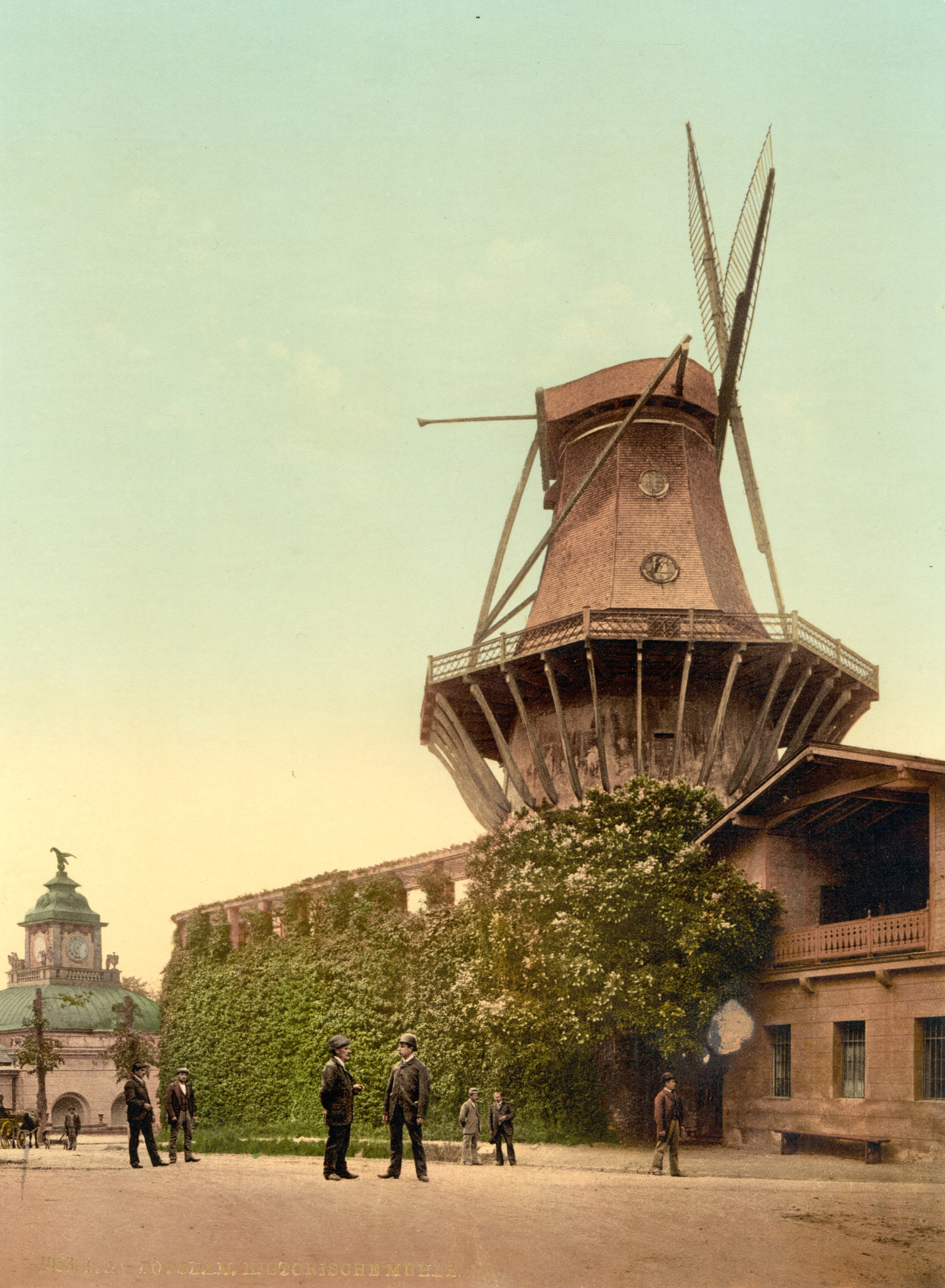 Sanssouci (Potsdam) - historical windmill